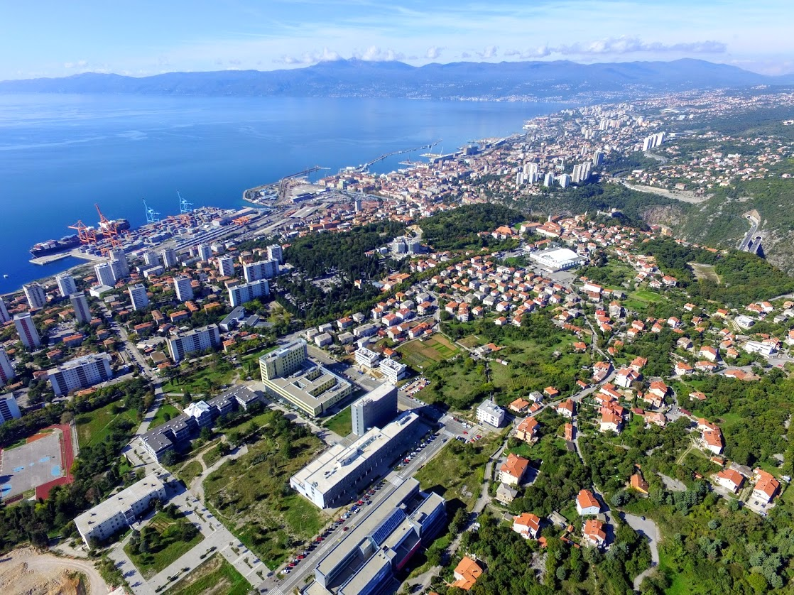 Rijeka aerial Croatia